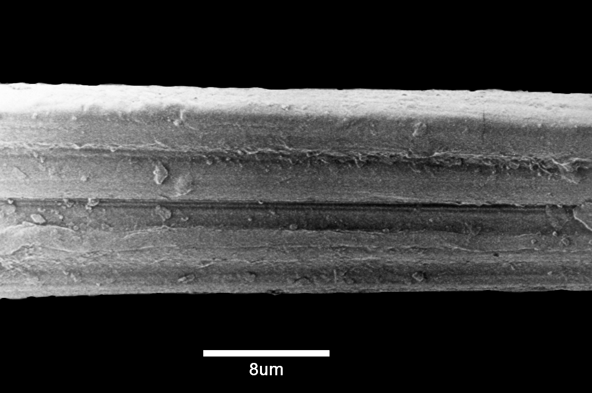 Scanning electron microscope image of a ramie fibre